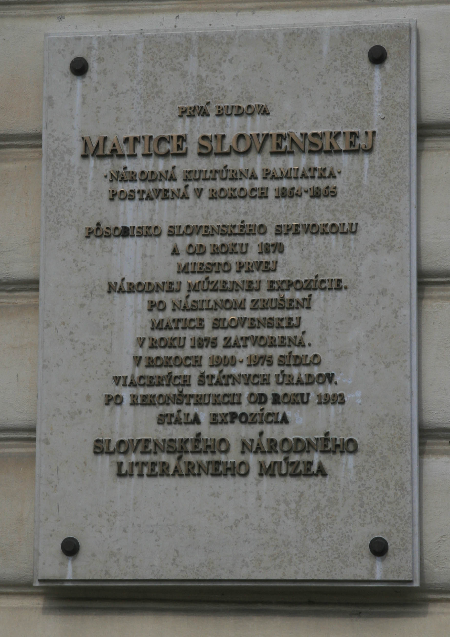 Memorial tablet Matica slovenská This medium shows the protected monument with the number 506-573/1 in the Slovak Republic.